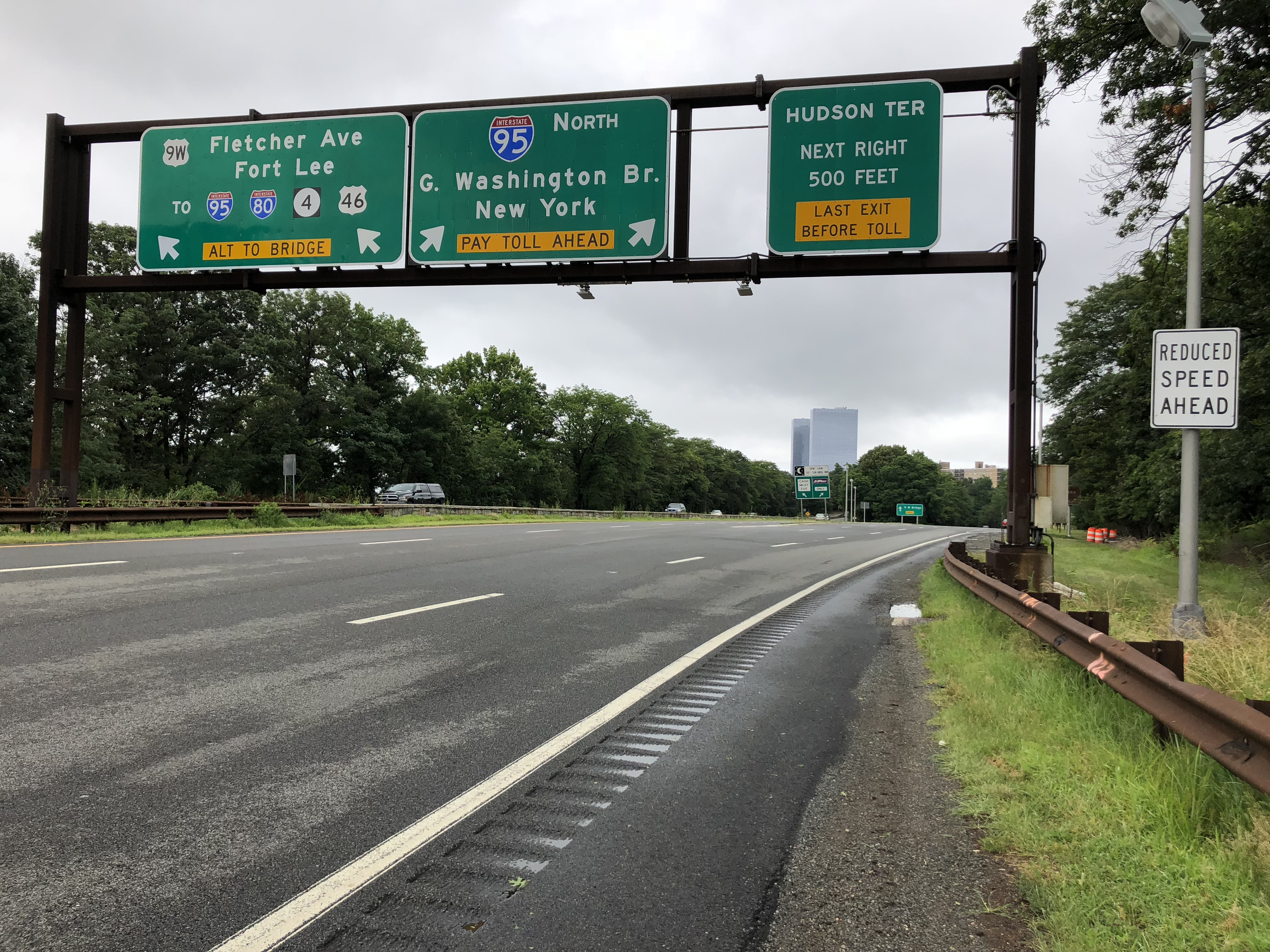 View south along New Jersey State Route 445 (Palisades Interstate Parkway) at the exits for U.S. Route 9W (Fletcher Avenue, Fort Lee, Interstate 95, Interstate 80, New Jersey State Route 4, U.S. Route 46) and Hudson Terrace in Fort Lee, Bergen County, New Jersey